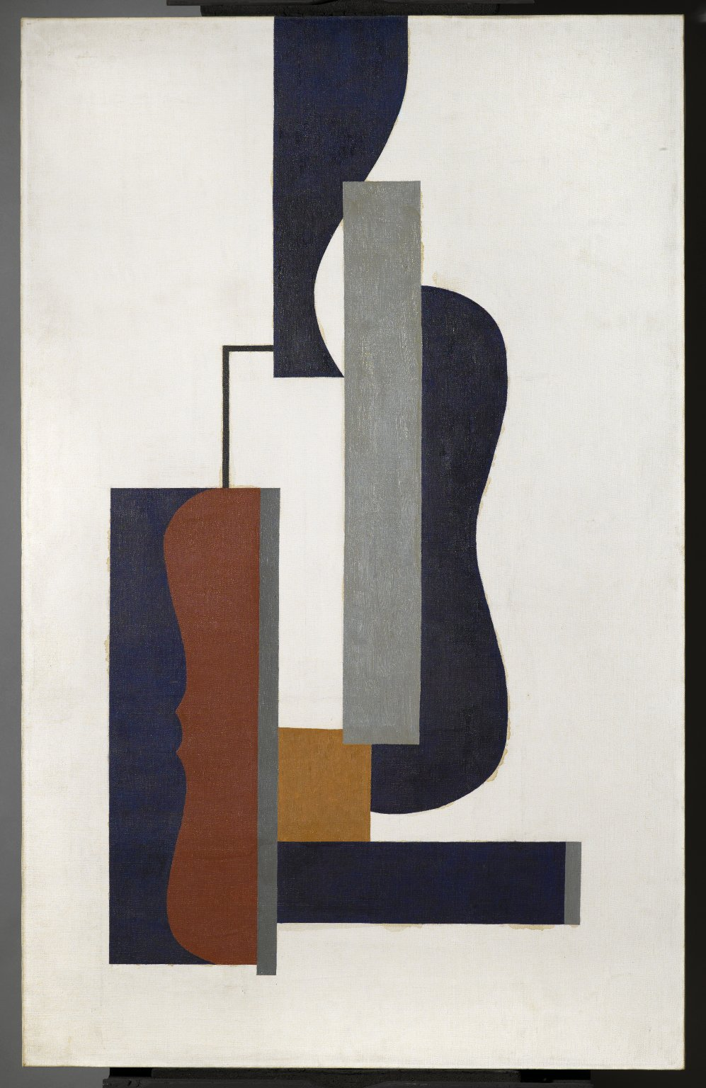 Albert Eugene Gallatin, Untitled, 1937, oil on canvas, 51⅛ x 32¼ inches, signed on back: "A.E. Gallatin / Nov. 1937"